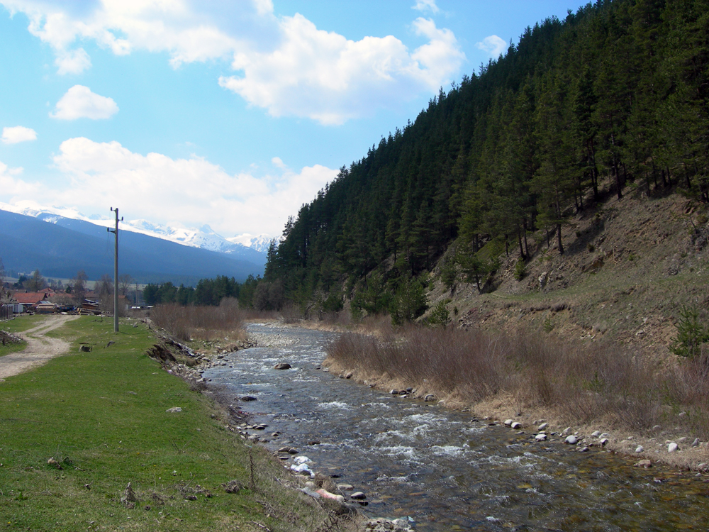 Cherni Iskar Subsidiary at Govedartsi